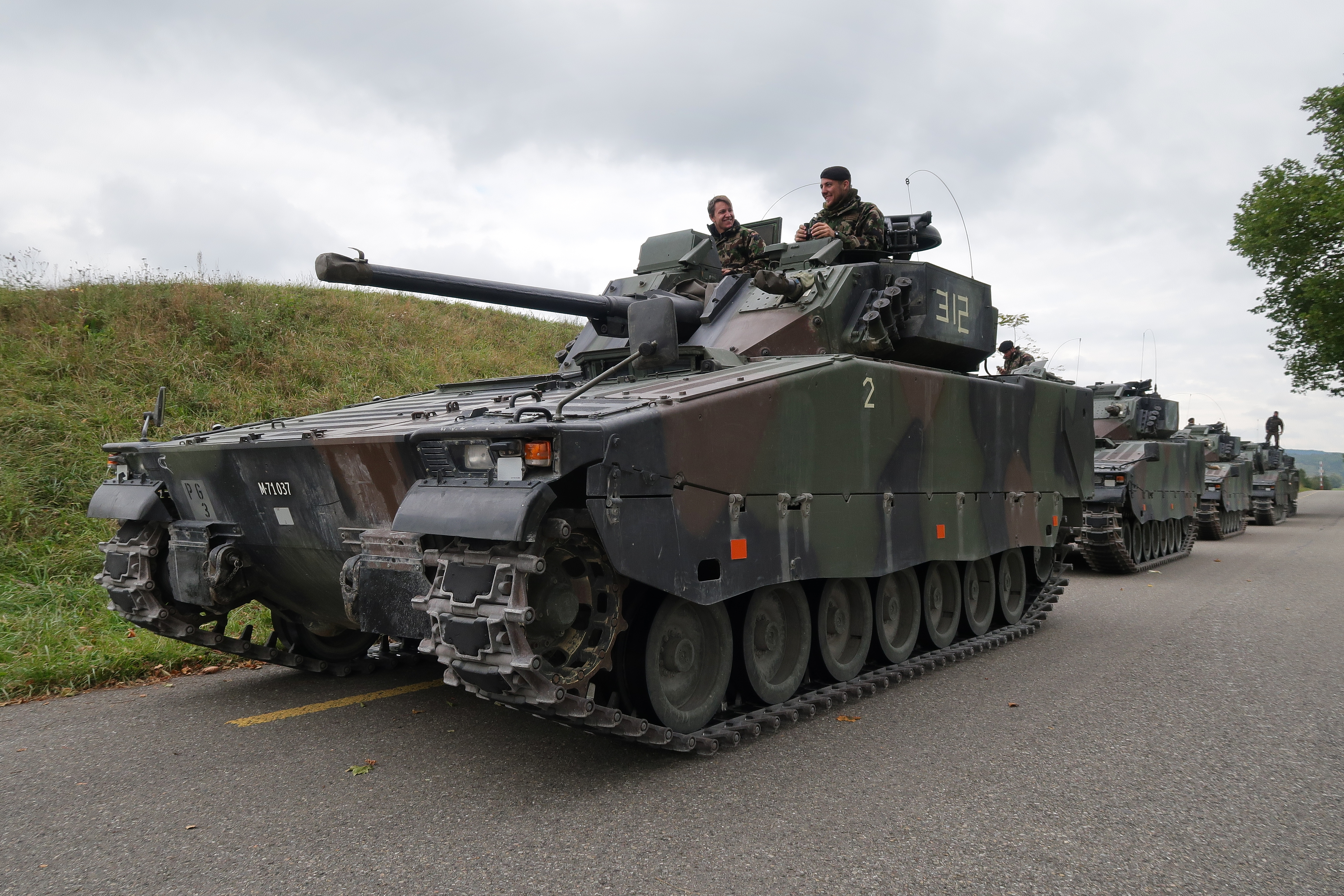 Five infantry fighting vehicles 2000 ready for action. These tanks are a replacement for the M113. Military training area Frauenfeld, Switzerland, Oct 8, 2016.